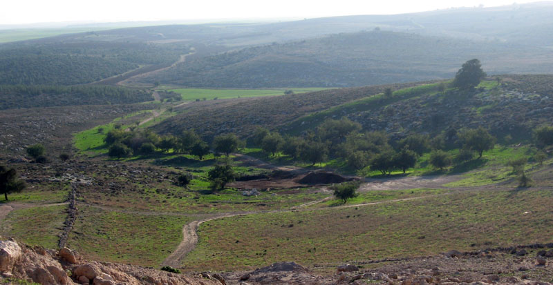 Lower Shephelah